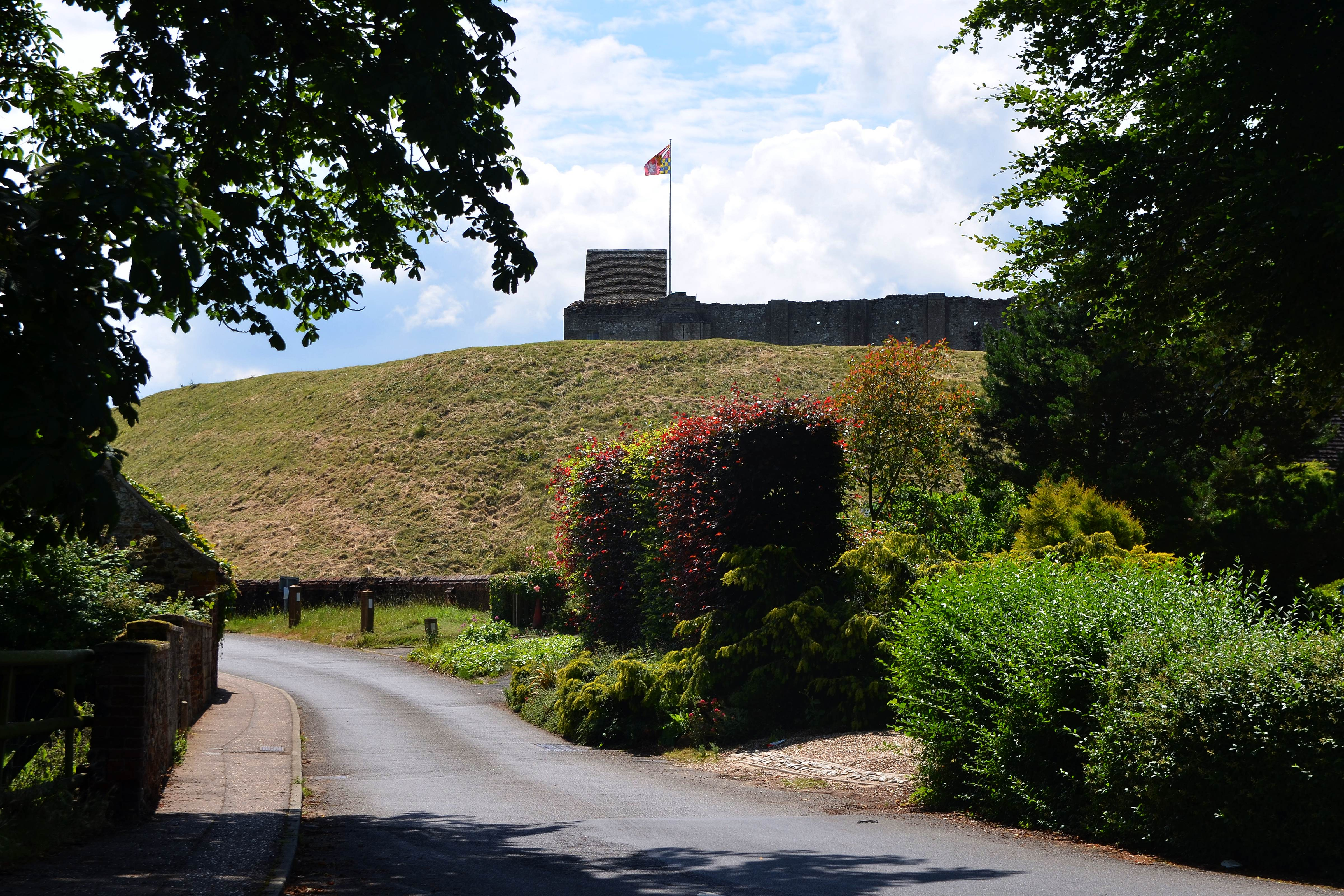 Castle Rising castle viewed from the village in July 2017.